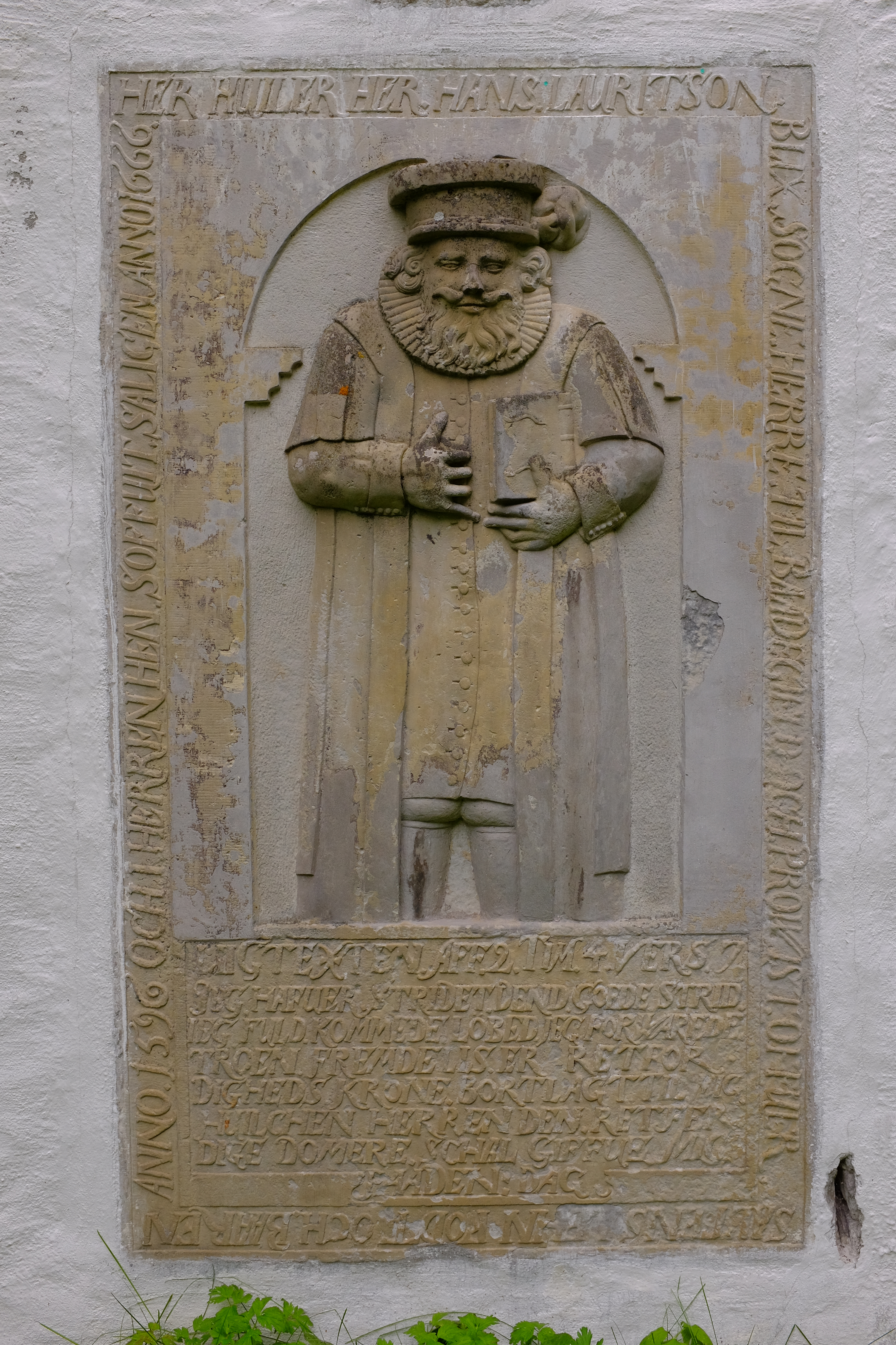 Grave monument of Hans Lauritzen Blix in Bodin church, Bodø, Nordland, Norway.